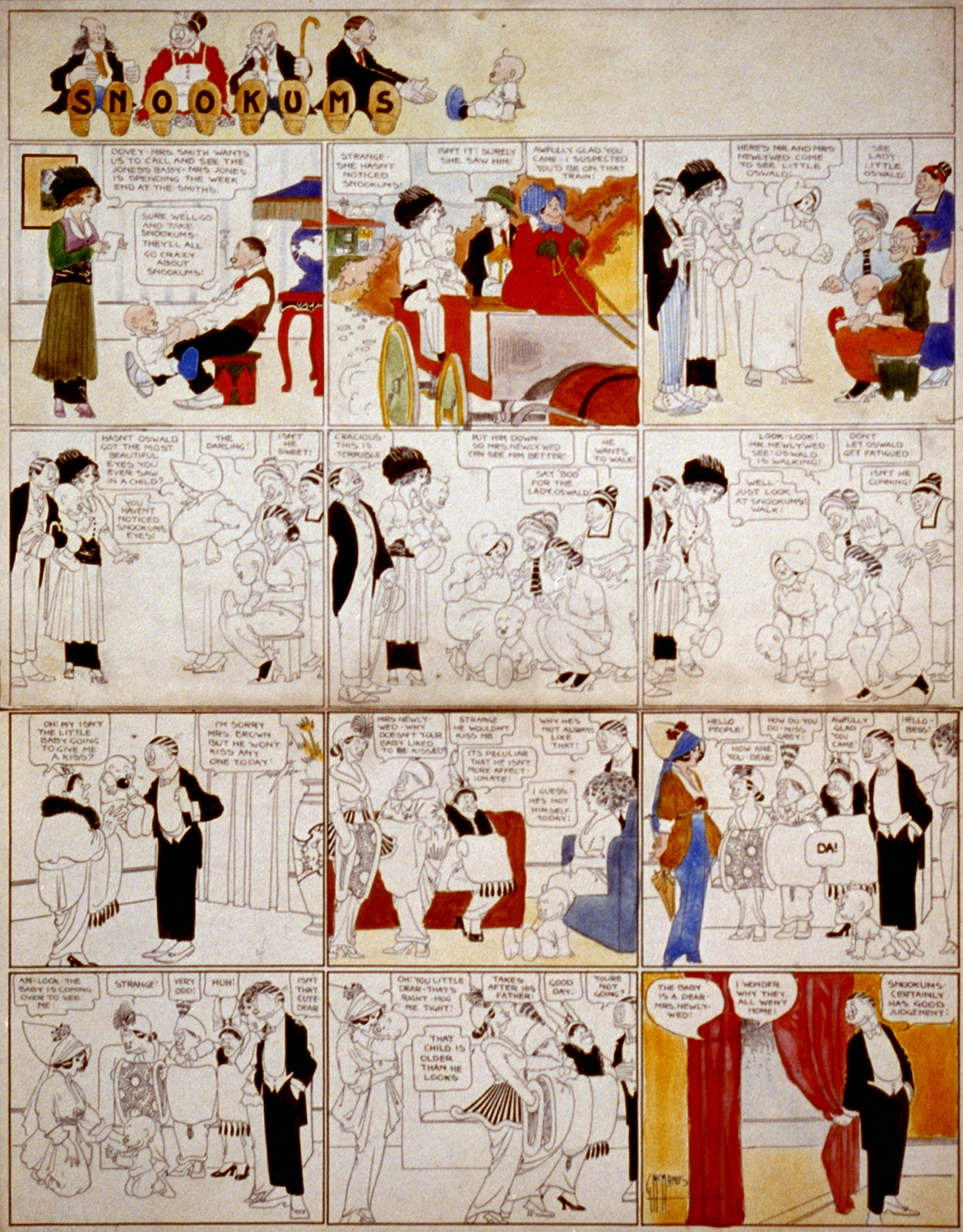 "Snookums". A thirteen-frame comic strip by American cartoonist George McManus (1884-1954). 1 drawing: India ink over pencil, with watercolor, and scraping out on bristol board, 55.0 x 43.0 cm. (sheet). Published in: Horn, "World Encyclopedia of Comics", p. 517. Published in: "The great American comic strip" by Judith O'Sullivan, Boston: Little, Brown, p. 159. Exhibited: University of Maryland, "The Art of the Comic Strip," 1971. Exhibited: Smithsonian Institution Traveling Exhibition Service, "The Art of the Comic Strip," 1972-74.